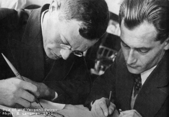 Russian writers Ilya Ilf and Yevgeny Petrov